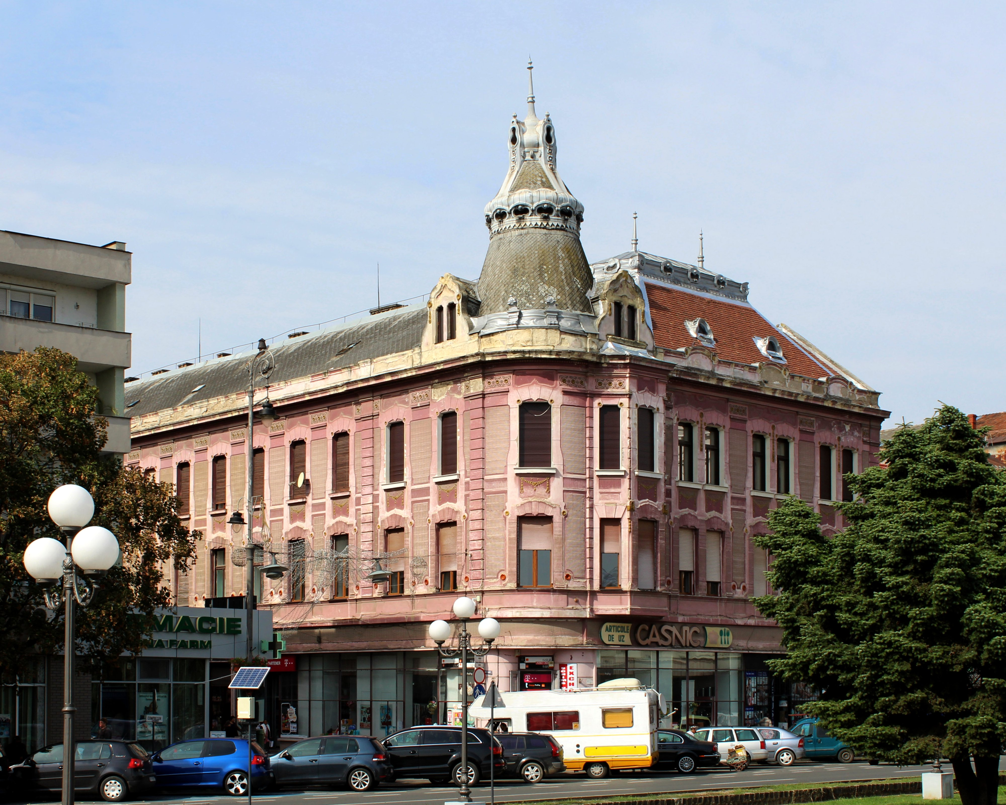 Nádasdy Palace, Arad, Romania.